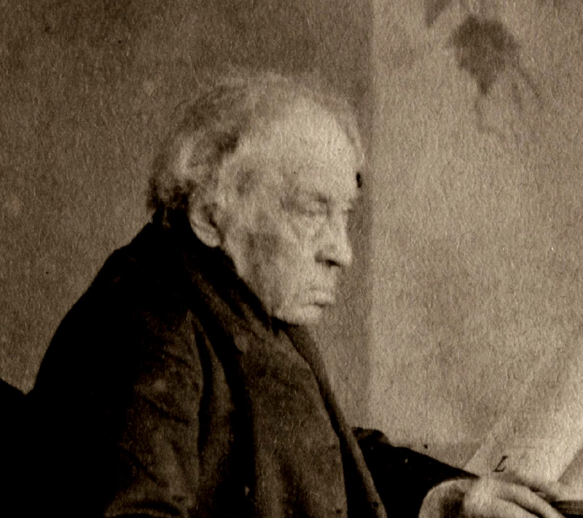 Photograph of Henry Phillpotts (1778-1869) Bishop of Exeter, in his old age. The reverse is stamped with the legend, "Photographed from life by Mayall 224 Regent Street London". The original photo is 100 x 60mm with margins, and is yellowed and faded. This is a section of the full photograph File:Henry Phillpotts Bishop of Exeter.jpg